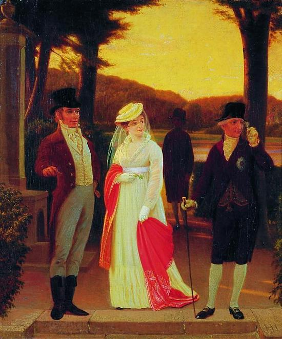 Commissioned by Orla Lehmann, this painting portrays Ernst Schimmelmann (at the right), his wife Charlotte, and the poet Jens Baggesen. It was supposed to depict the time around 1806: Baggesen stands with his benefactors at the Emilie Fountain on Strandvejen below the country house Sølyst near Klampenborg. The Emilie Fountain was created by Nicolai Abildgaard as a classic monument to Schimmelmann's first wife who died in 1780.